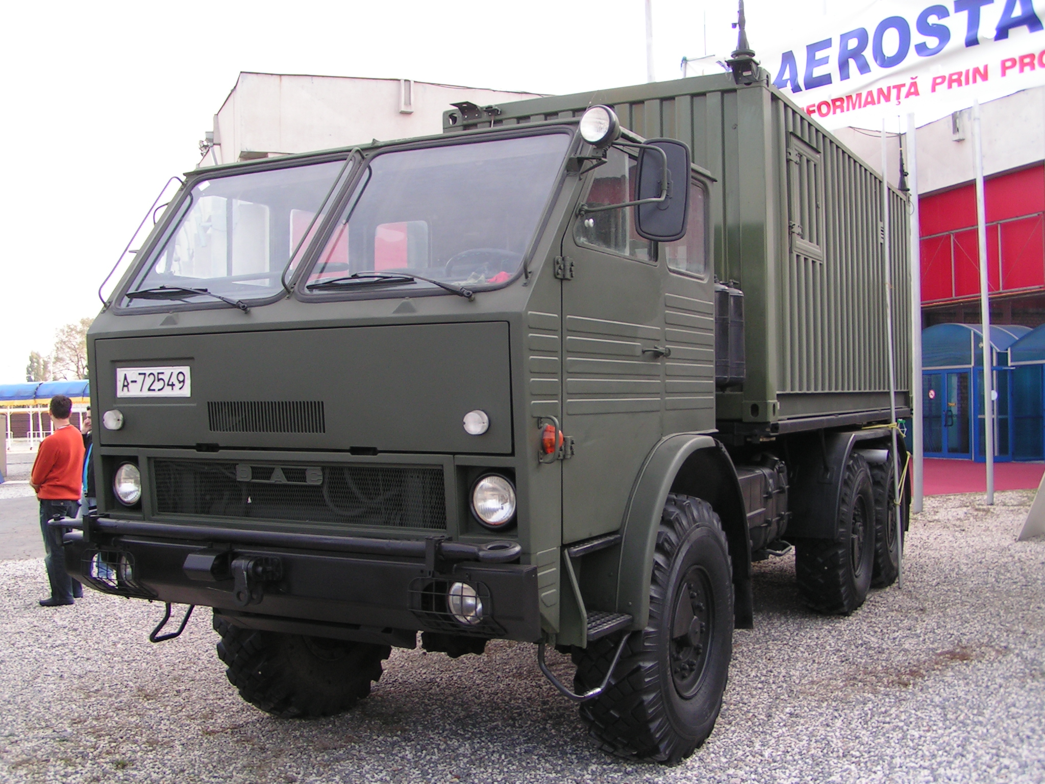 LAROM System at Expomil 2005, 22.10.2005, Command Post